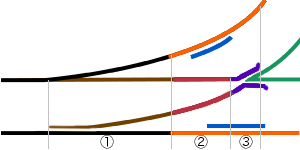 The outline figure of railroad switch components.